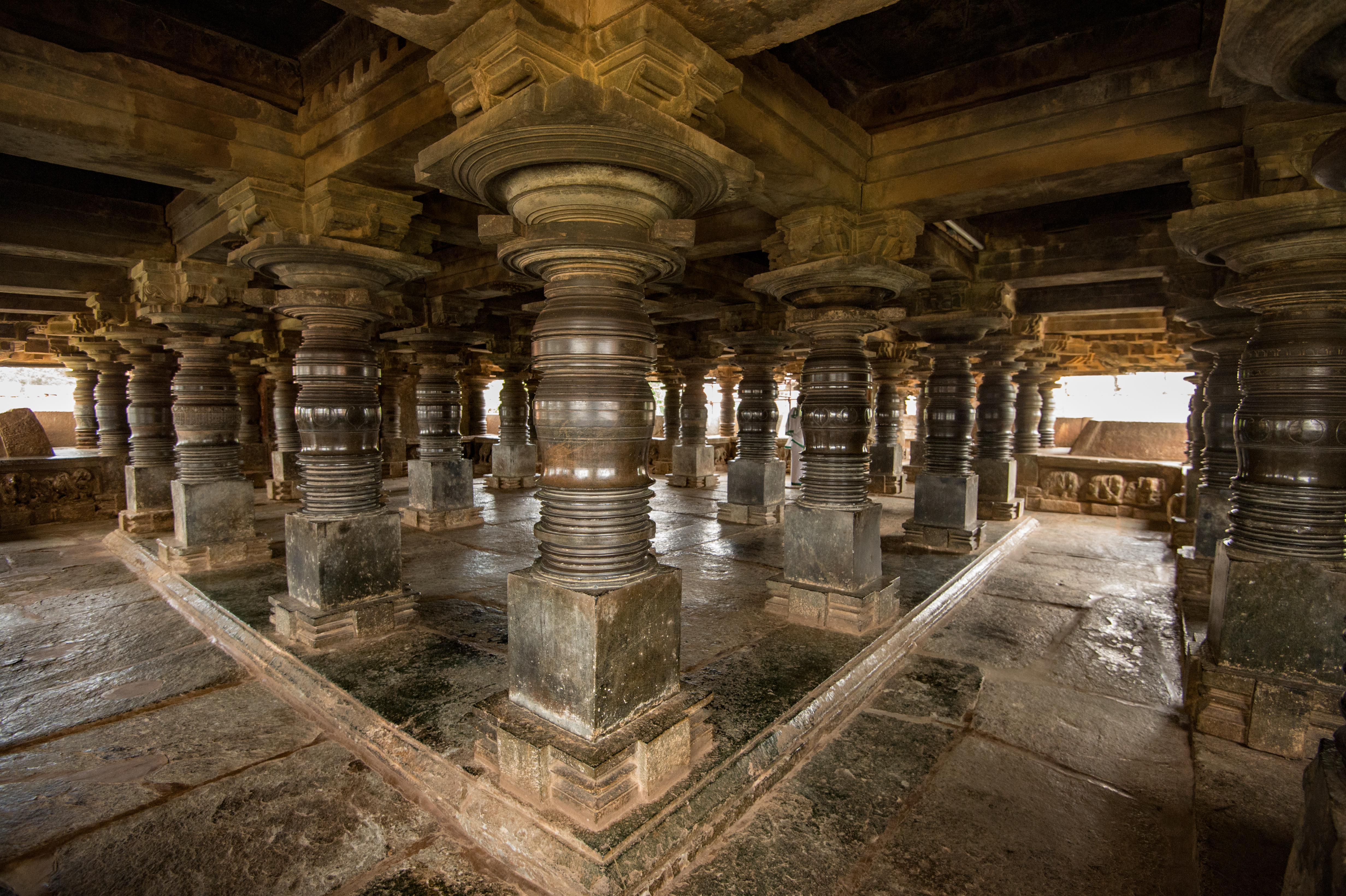 Hoysala Architechtures